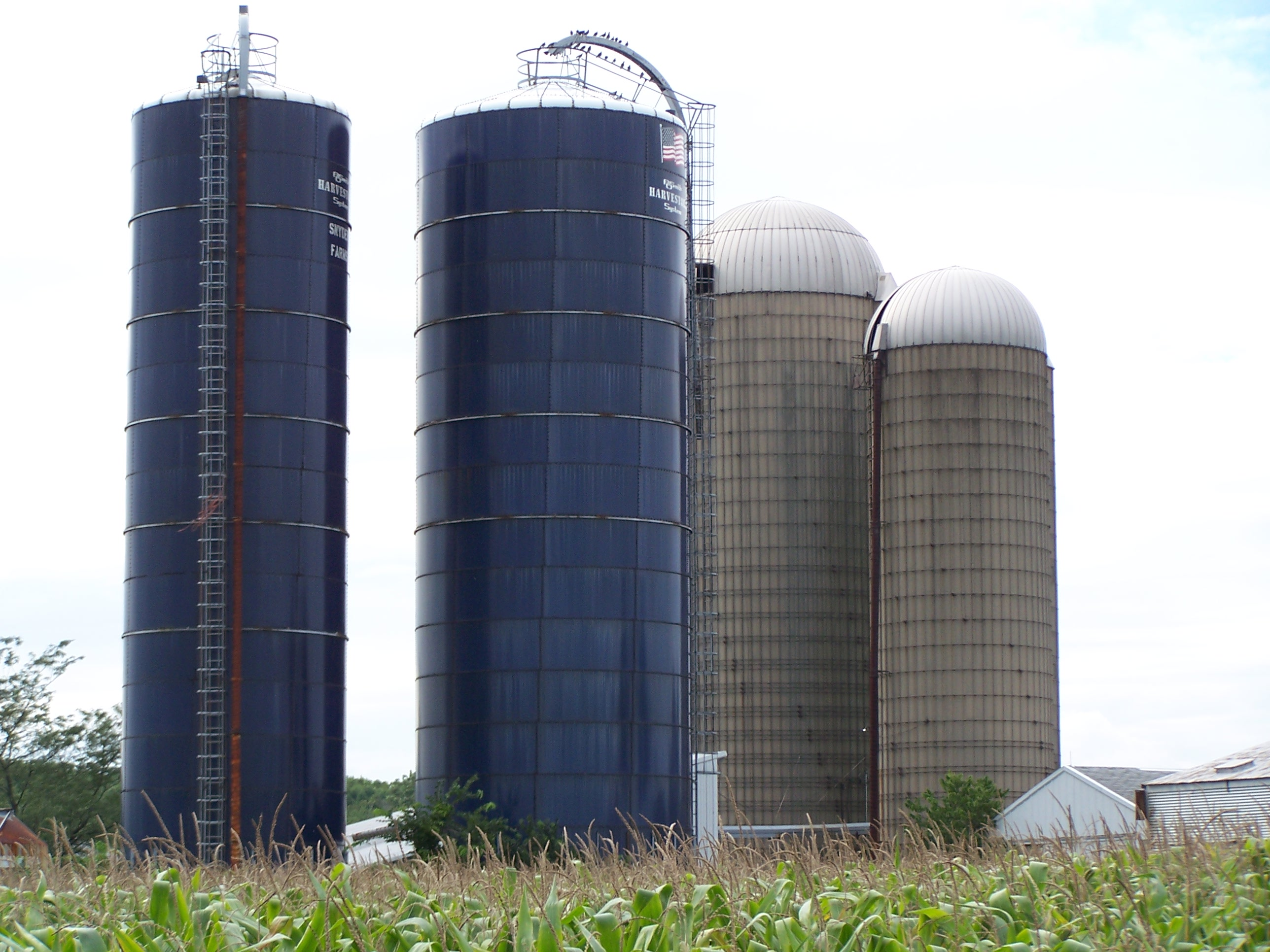 Silos on a farm somewhere in Indiana, United States – This is what Indiana is all about … farming and corn.